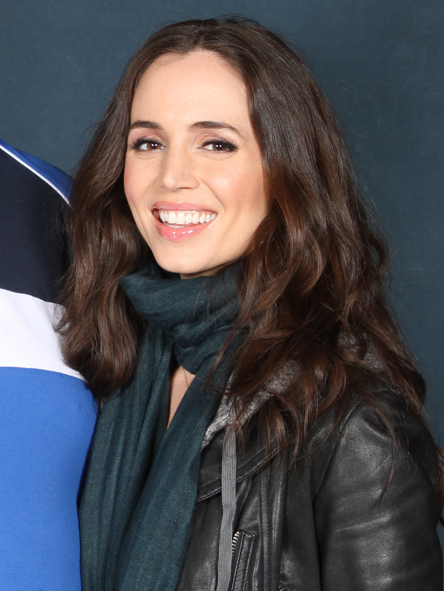 Actress Eliza Dushku in Dallas, Texas, US (February 2012).